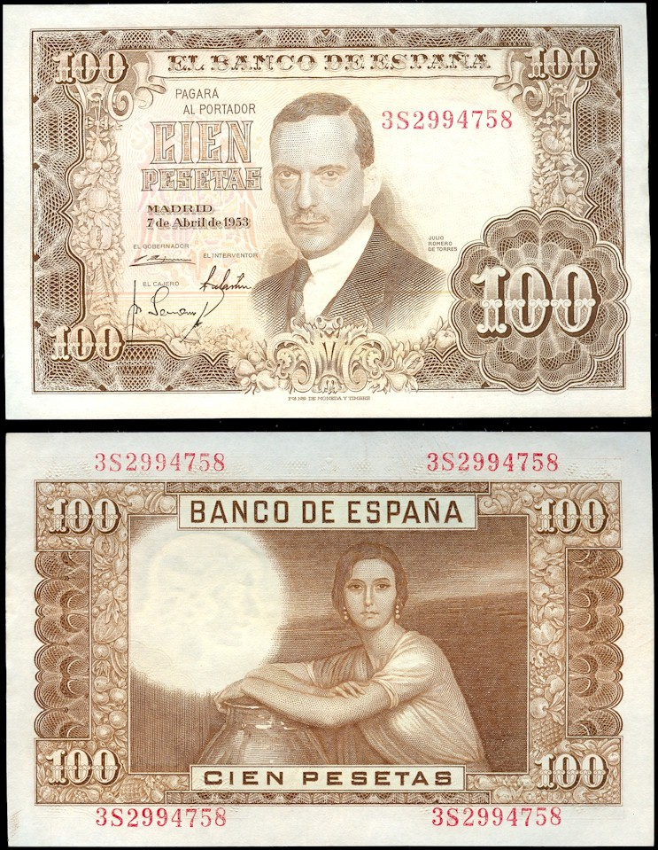 100 pesetas of Spain 1953